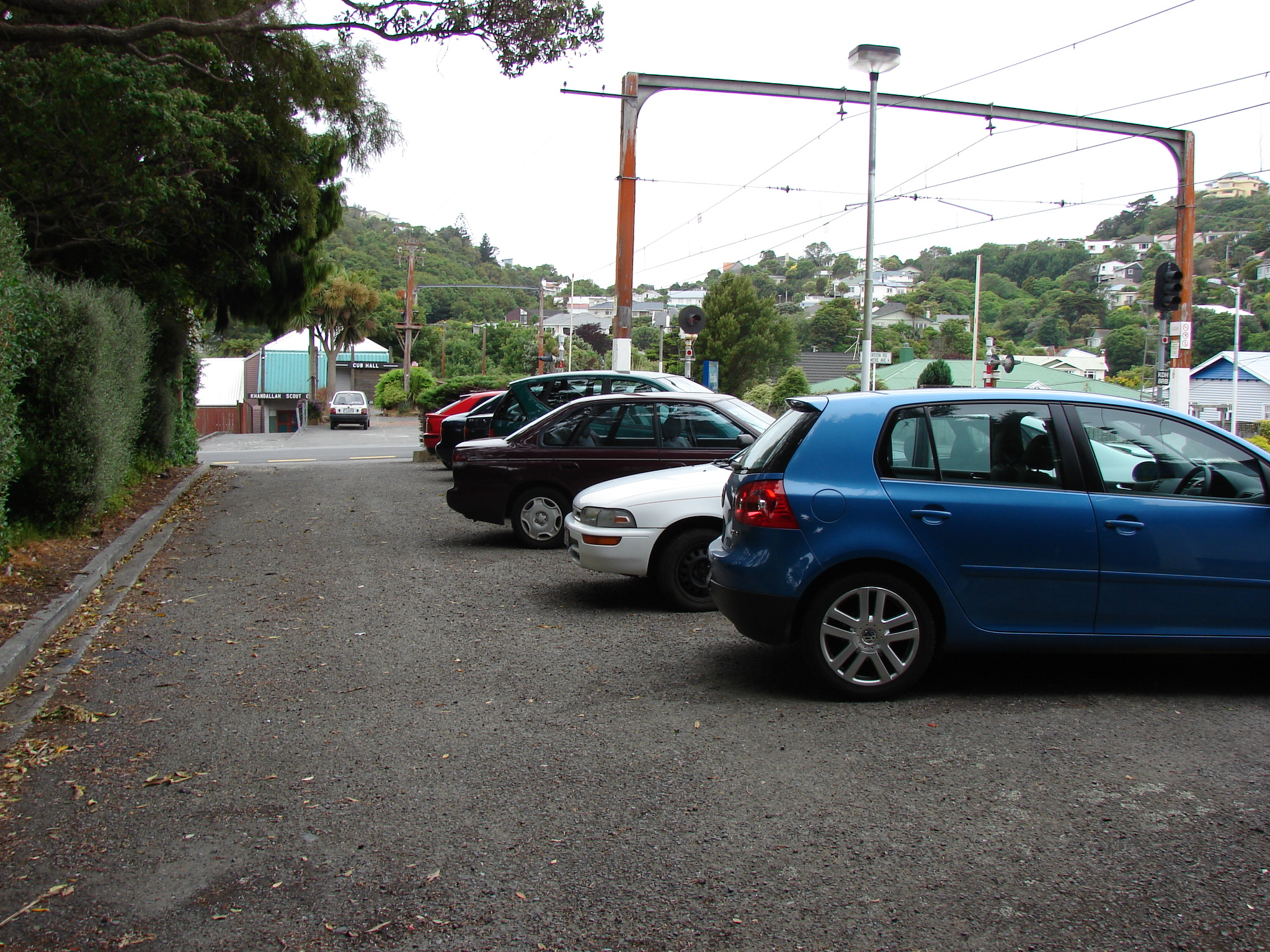 Khandallah railway station car park. Photographed by Matthew25187 on 2007-12-17.